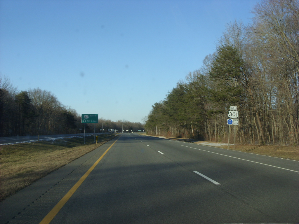 US Route 301 - Maryland